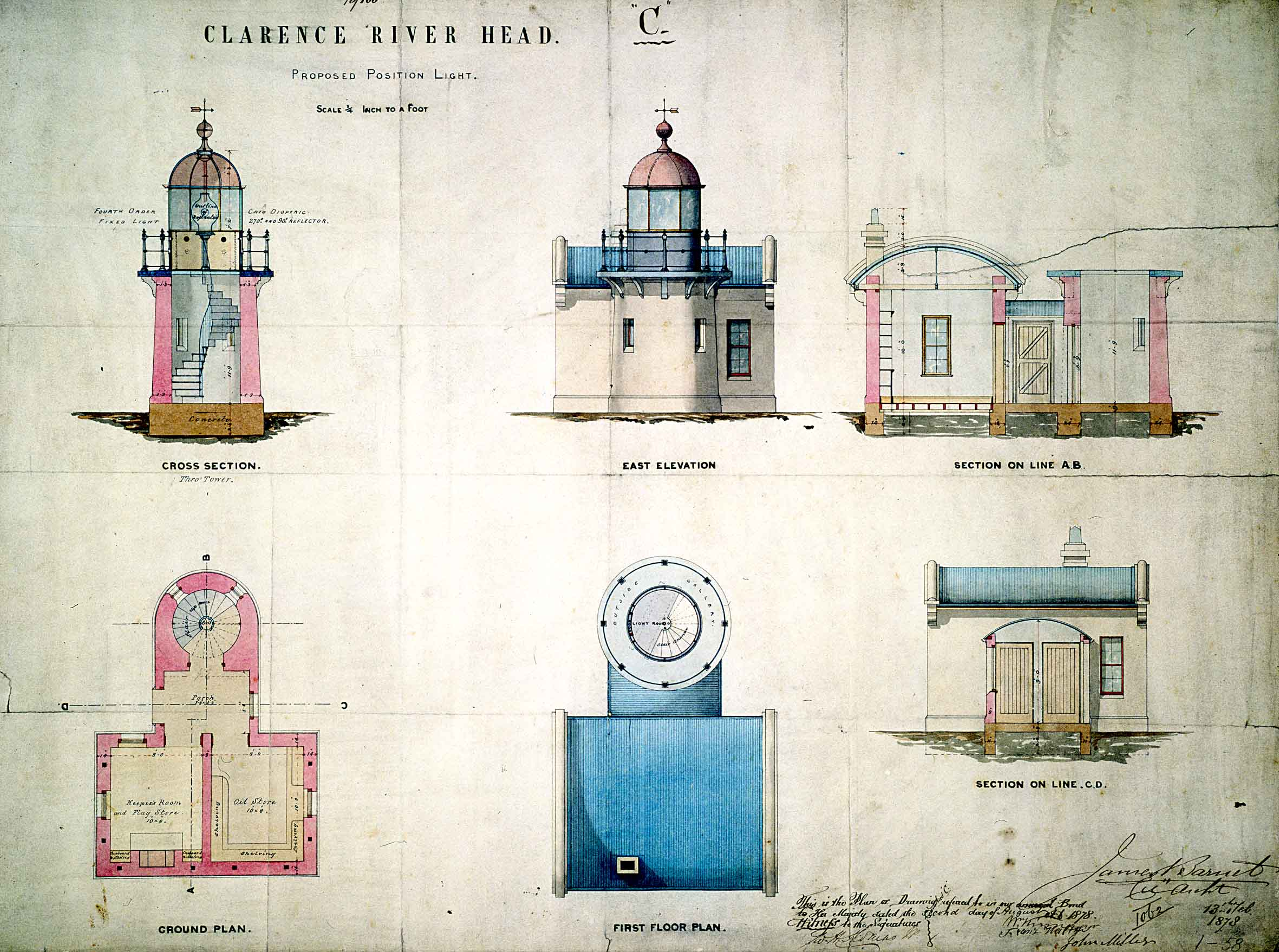 Clarence River Light - plans for proposed position light, by James Barnet: NSW Colonial Architect, 1878